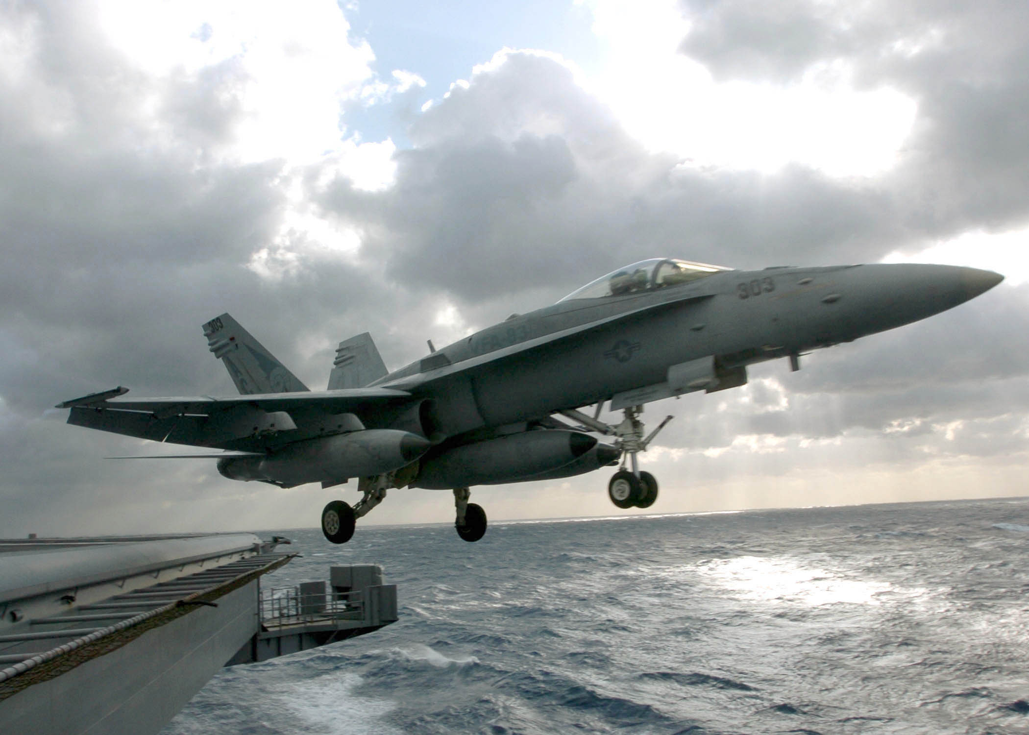 Atlantic Ocean (March 7, 2006) - An F/A-18C Hornet assigned to the “Rampagers” of Strike Fighter Squadron Eighty Three (VFA-83), takes off from the flight deck aboard the Nimitz-class aircraft carrier USS Dwight D. Eisenhower (CVN 69). Eisenhower and Carrier Air Wing Seven (CVW-7) are underway conducting a Tailored Ship's Training Availability/Final Evaluation Period. U.S. Navy photo by Photographer’s Mate 3rd Class Christopher B. Long (RELEASED)